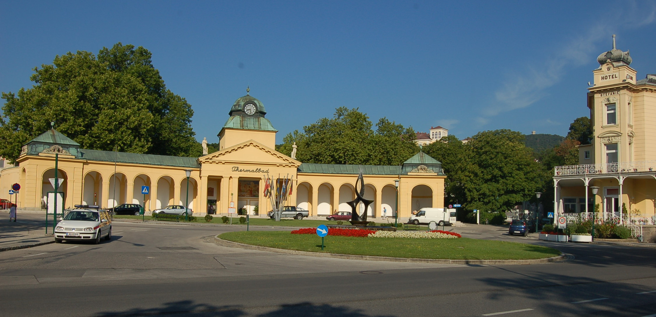 Thermal bath and Hotel Stefanie, Bad Voeslau